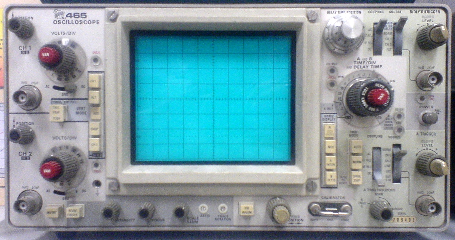 Tektronix 465 Oscilloscope. This is a dual-channel, 100 MHz bandwidth, analog oscilloscope.